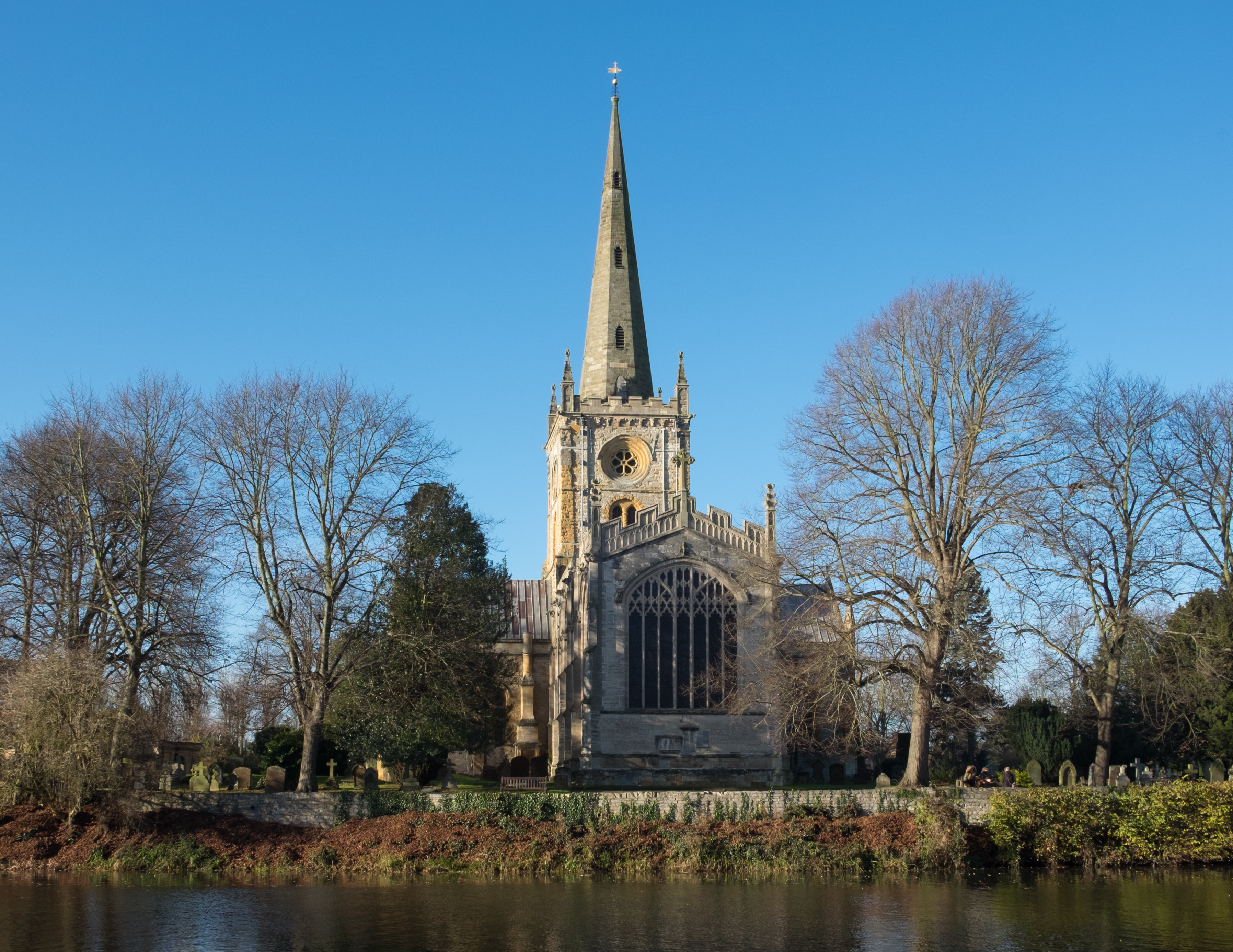 Holy Trinity Church, Stratford-upon-Avon, Warwickshire. This church, where William Shakespeare was baptised in 1564 and buried in 1616, is a Grade I Listed Building in England.